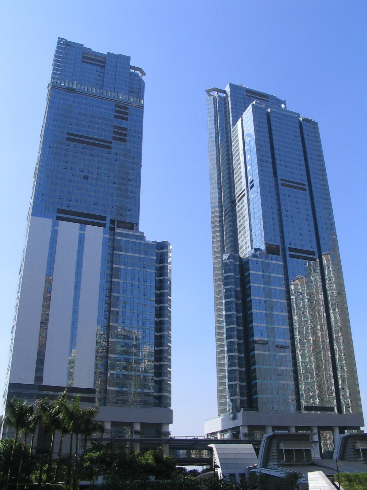 九龍站六期-天璽 The Cullinan, Union Square Package 6